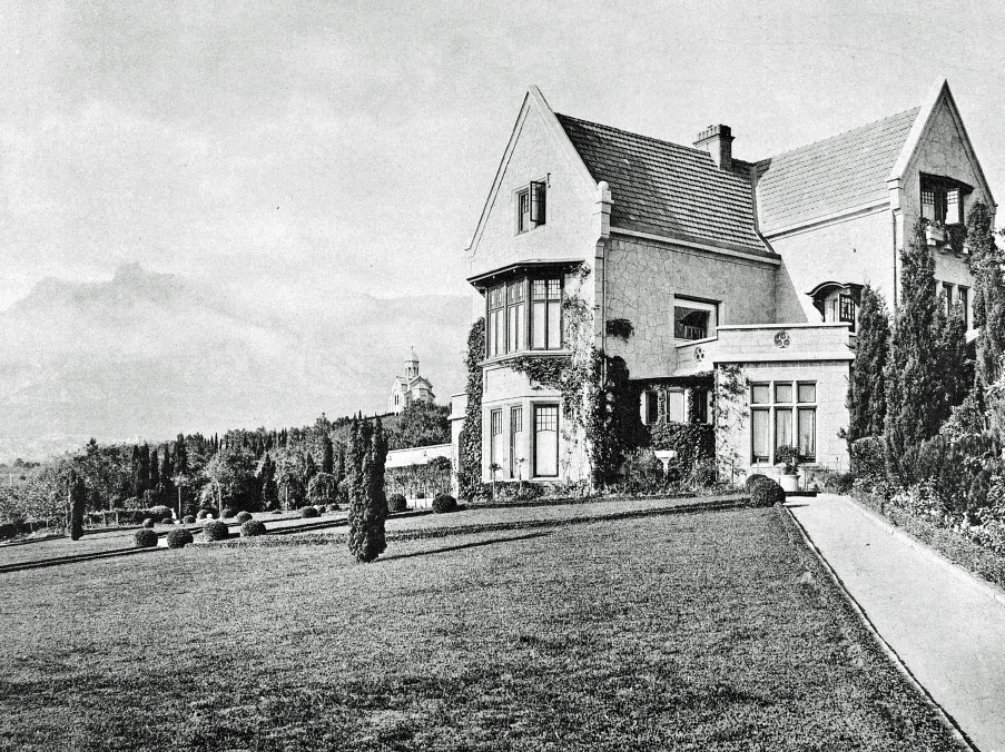 Harax, the Crimean palace of Grand Duke Geroge Mikhailovich, 1913.